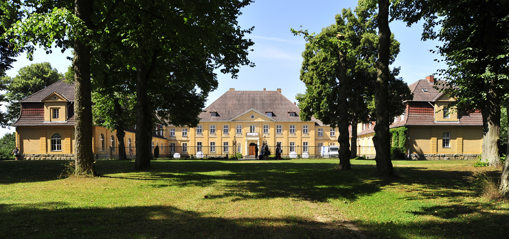 castle Herzfelde near Templin, Germany